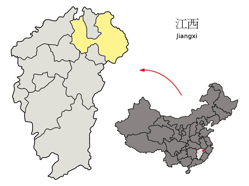 Location of Shangrao Prefecture (yellow) within Jiangxi Province of China Map drawn in december 2007 using various sources, mainly : Jiangxi Province administrative regions GIS data: 1:1M, County level, 1990 Jiangxi Counties map from